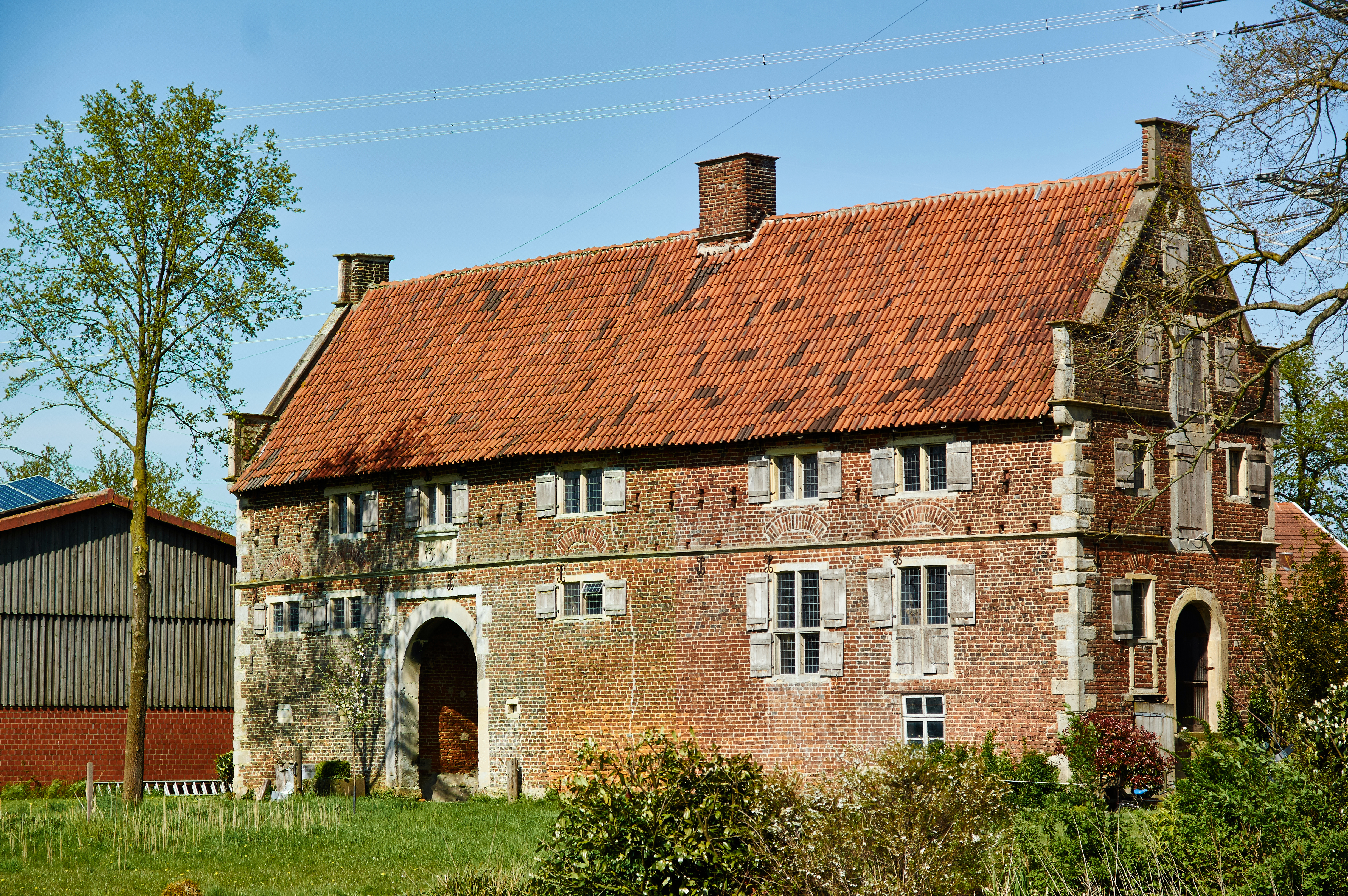 Haus Brock is a historic farm house in Münster-Roxel. This is a photograph of an architectural monument.It is on the list of cultural monuments of Münster